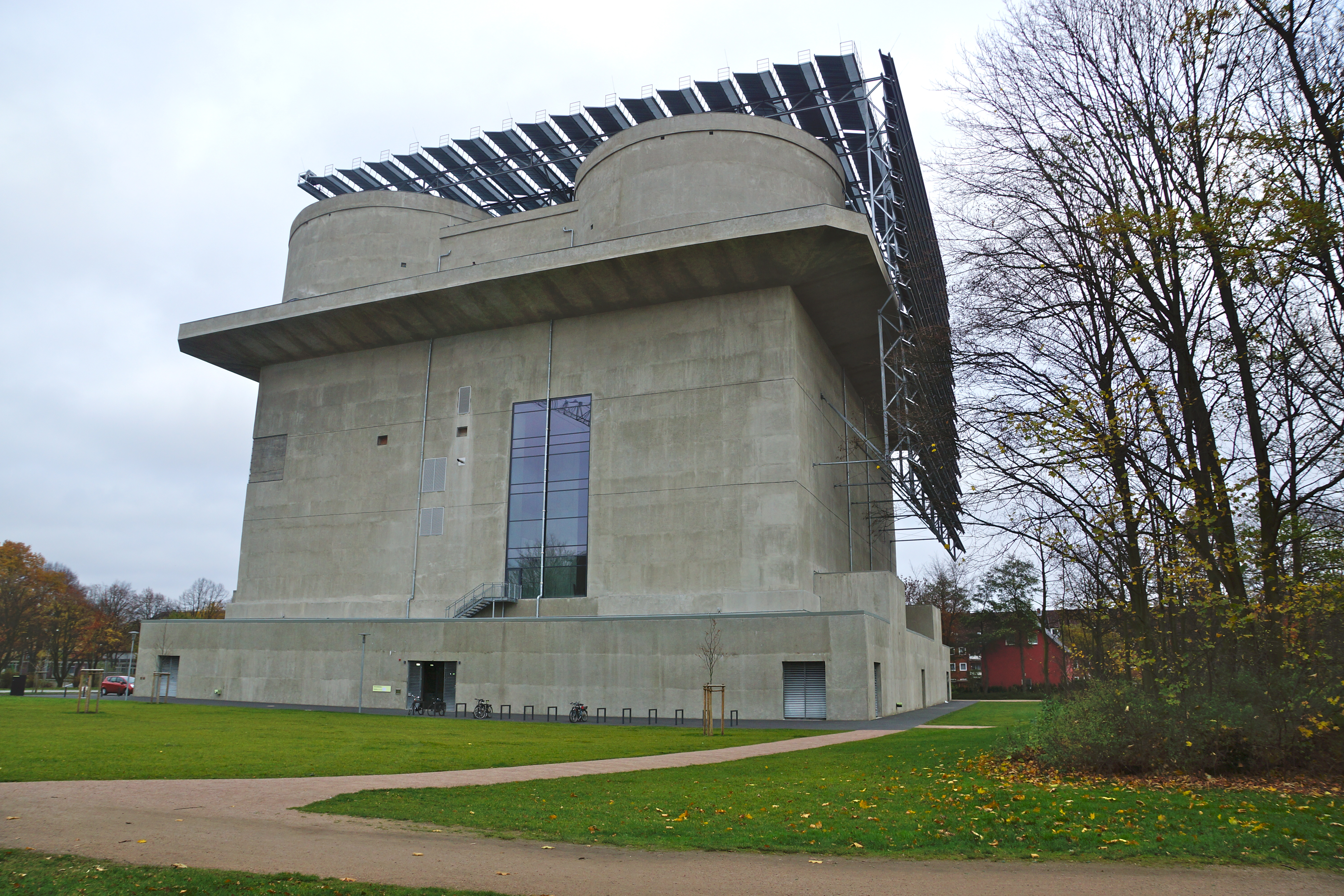 Hamburg (Wilhelmsburg), Germany: Western facade of Flak tower n°VI after renovation